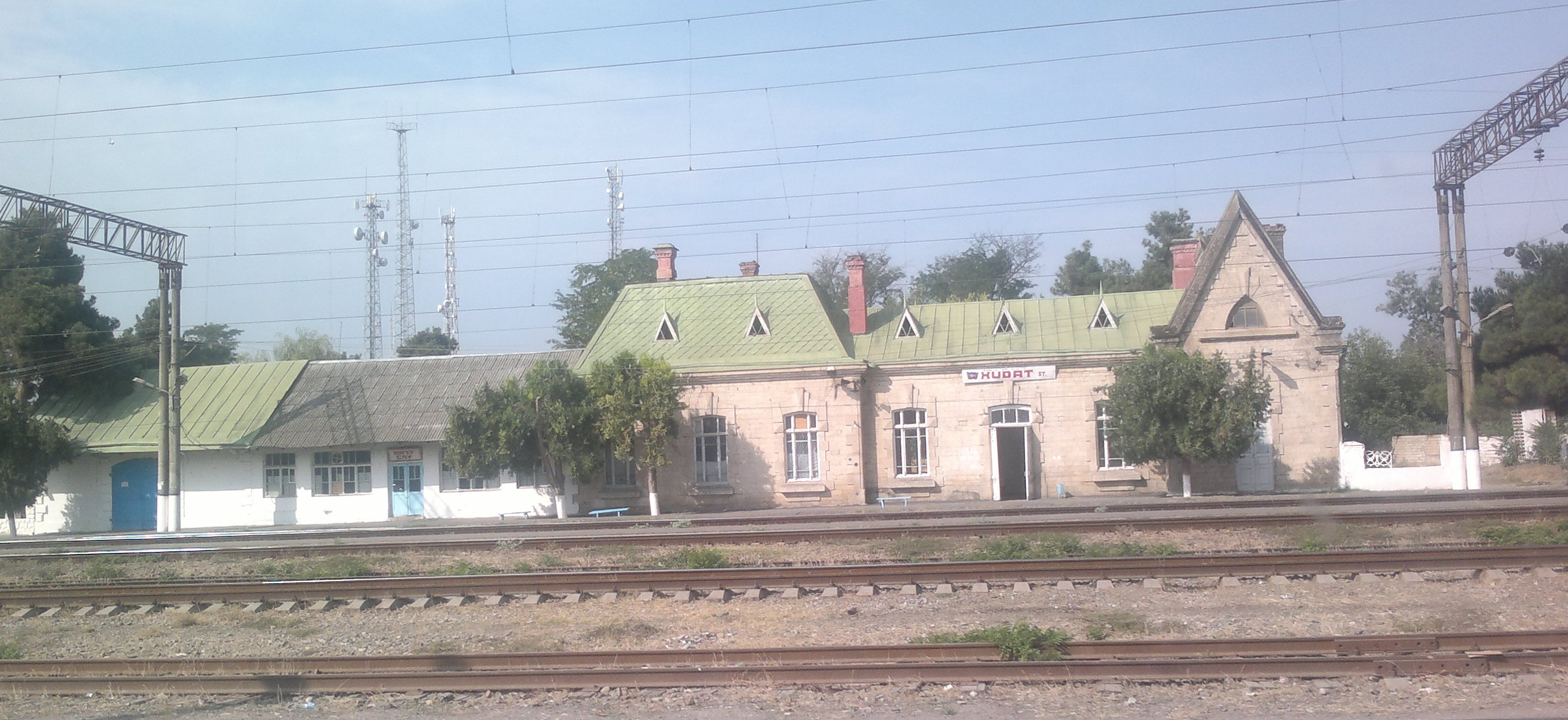 Khudat station, northern Azerbaijan